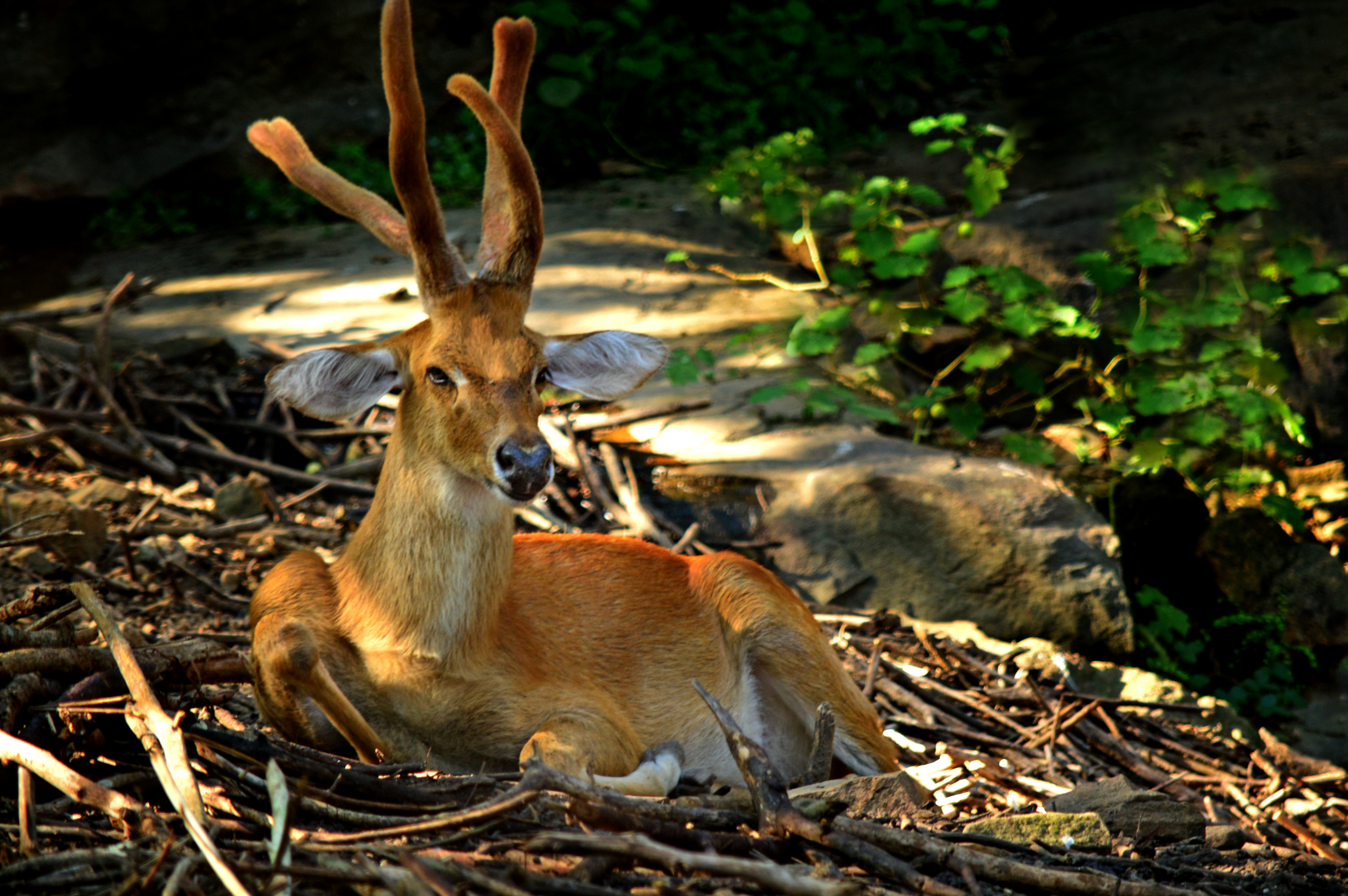 A deer.